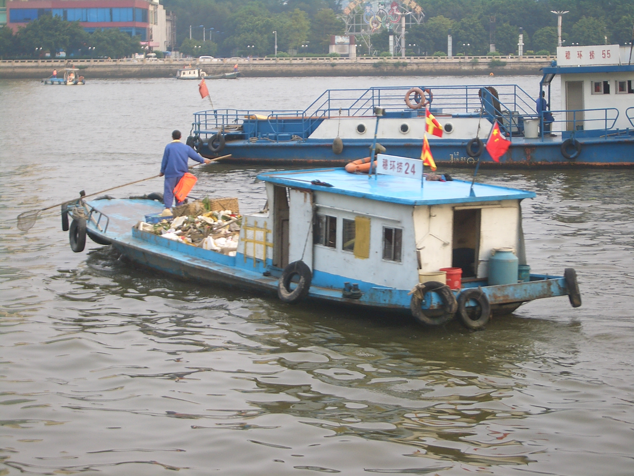 A boat picks floating garbage from Pearl River in Guangzhou, off Shamian Islan